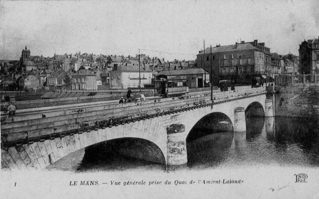 Old postcard showing the Quai Amiral Lalande in Le Mans, crossed by the first tramway